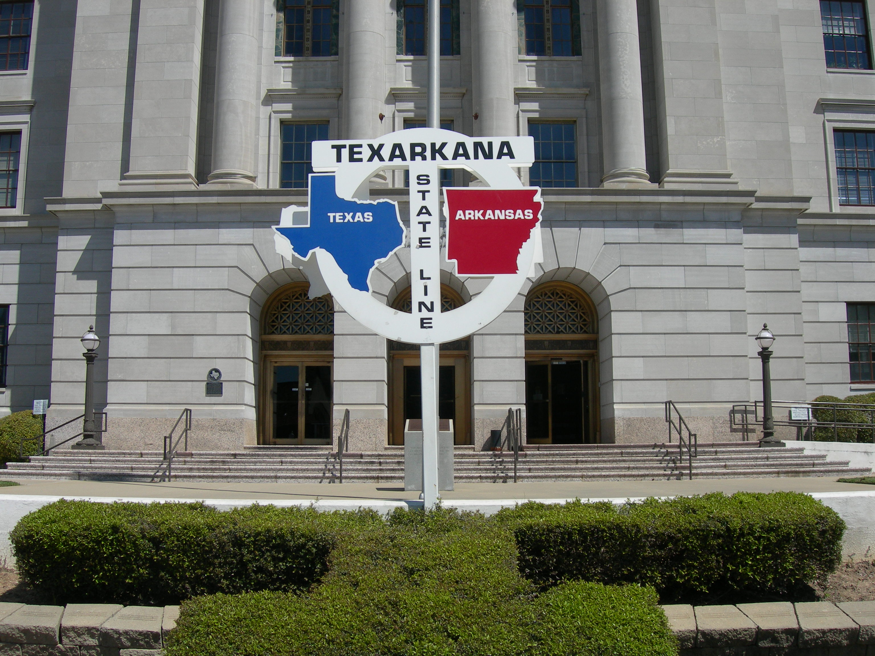 Border marker in front of the courthouse in Texarkana, USA